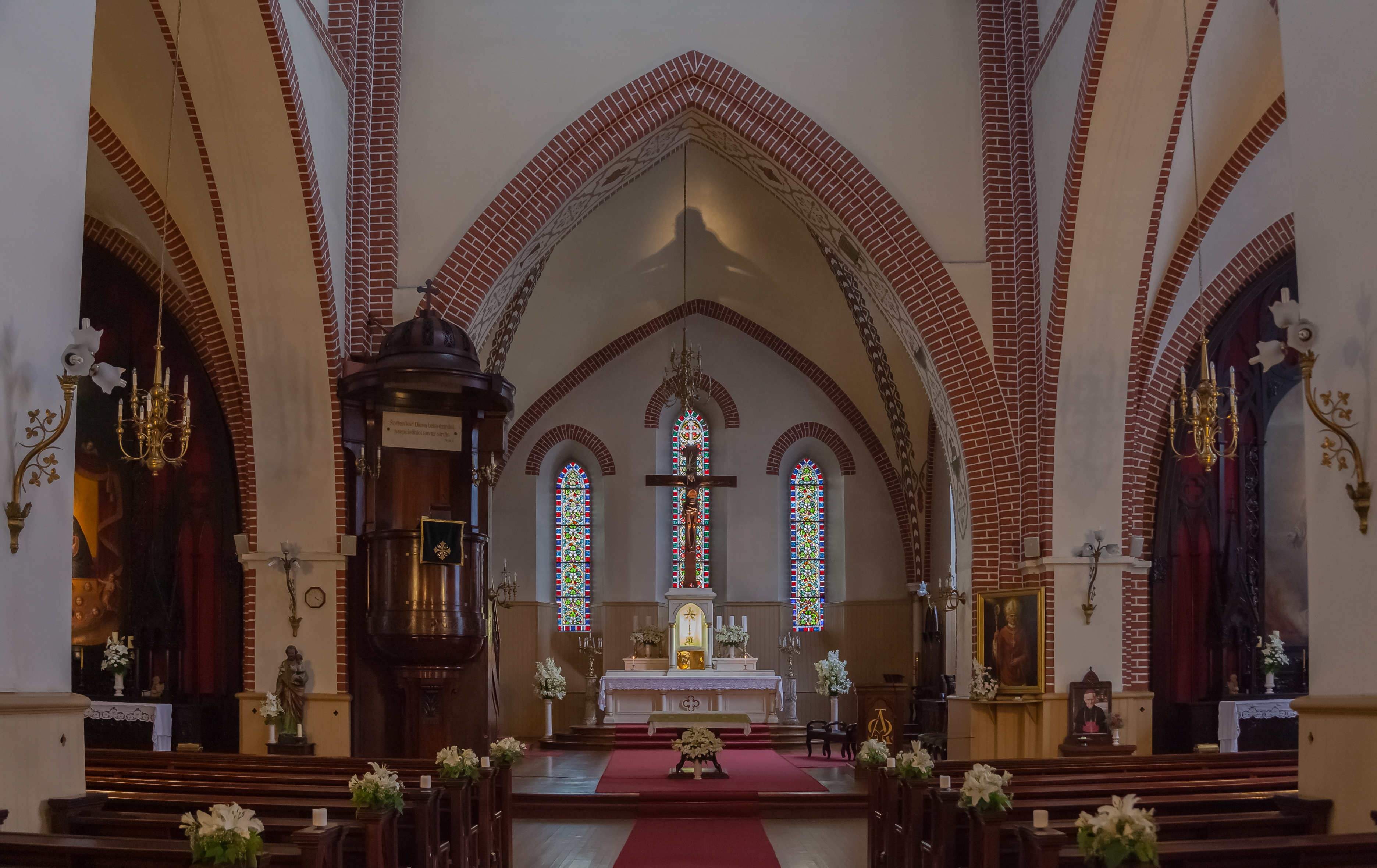 St. James's Cathedral, Riga, Latvia